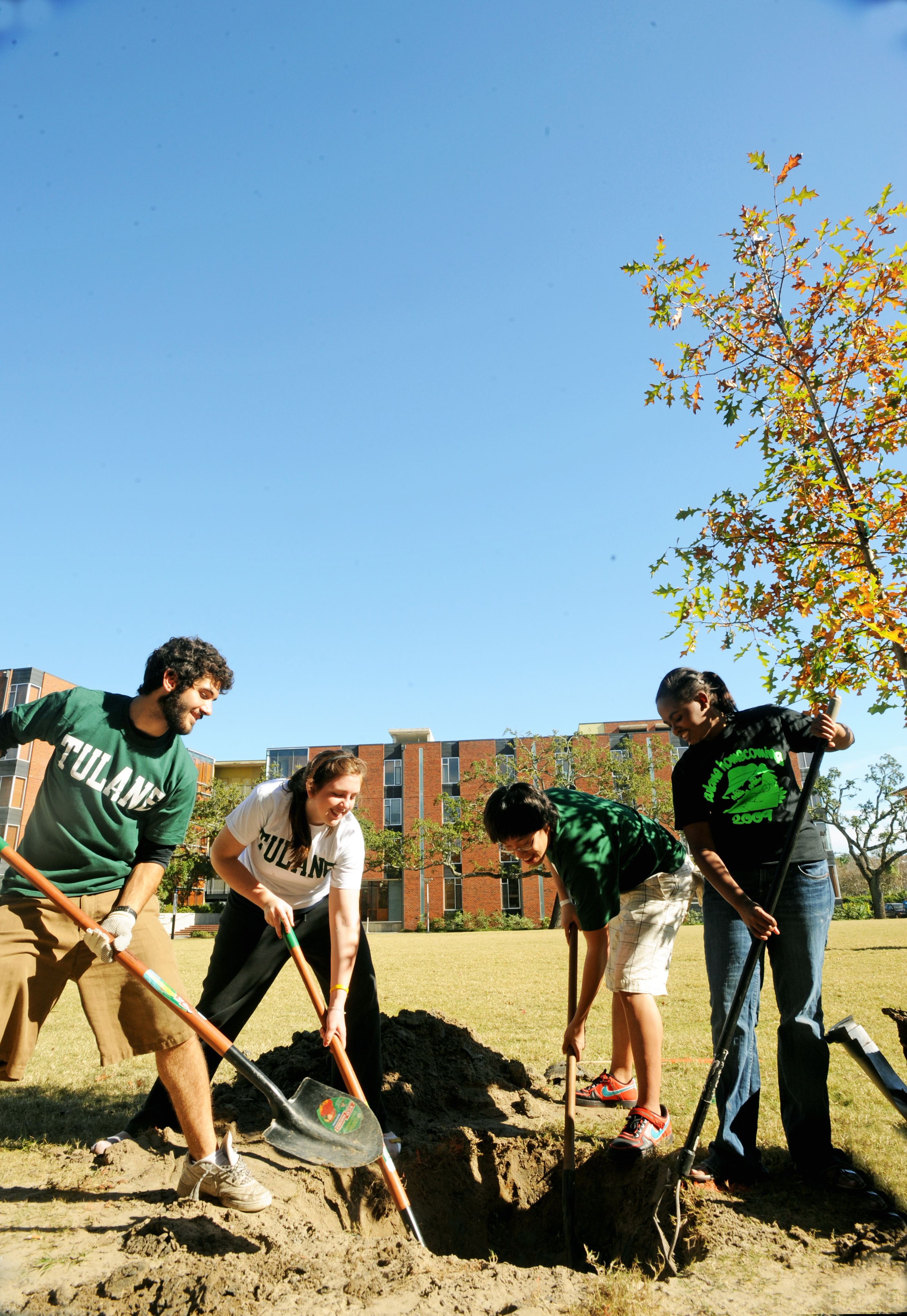 Arbor Day